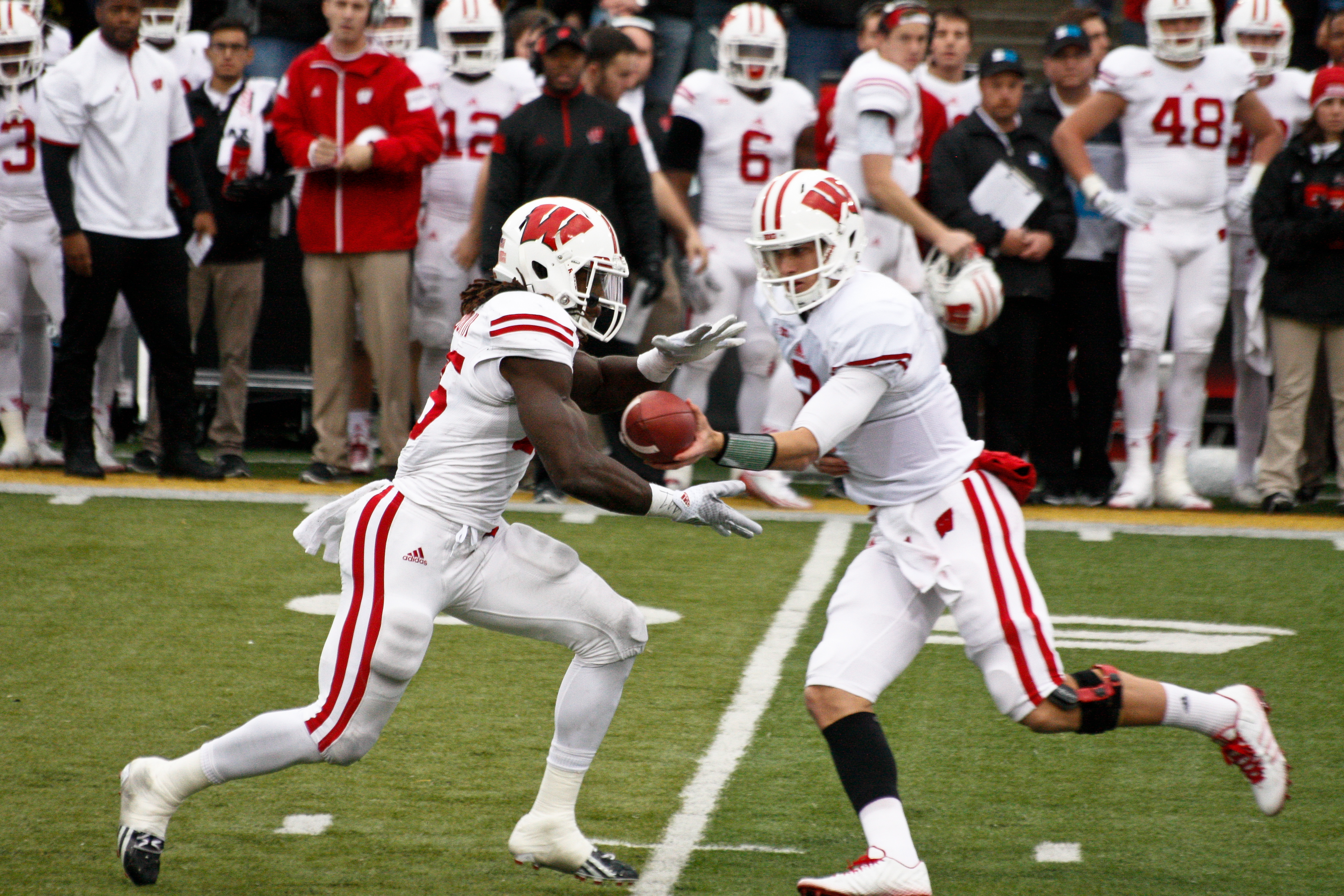 Wisconsin's Joel Stave handing off to Melvin Gordon. Photos from the first half of the University of Iowa vs. University of Wisconsin-Madison football game at Kinnick Stadium on November 22, 2014 The Hawkeyes lost to the Badgers 26-24.